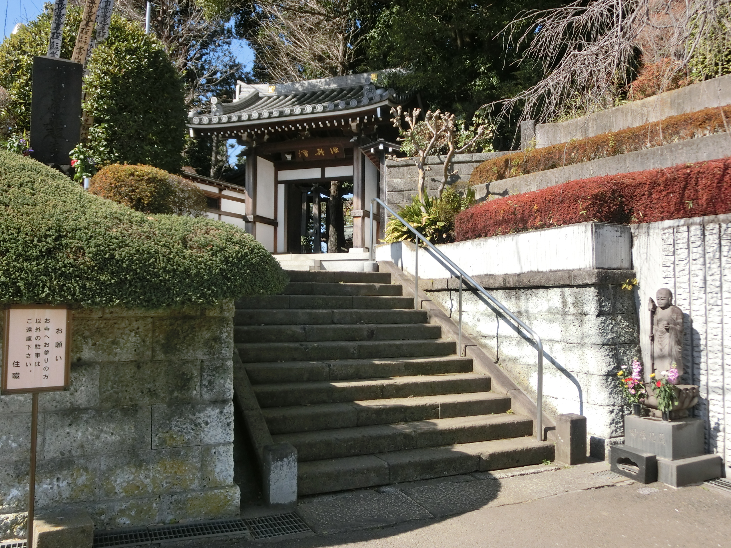 Hoshin-ji (Kita, Tokyo)